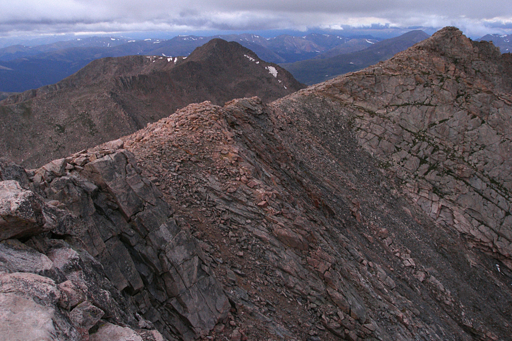 Mount Evans, Colorado, USA, westward view from summit